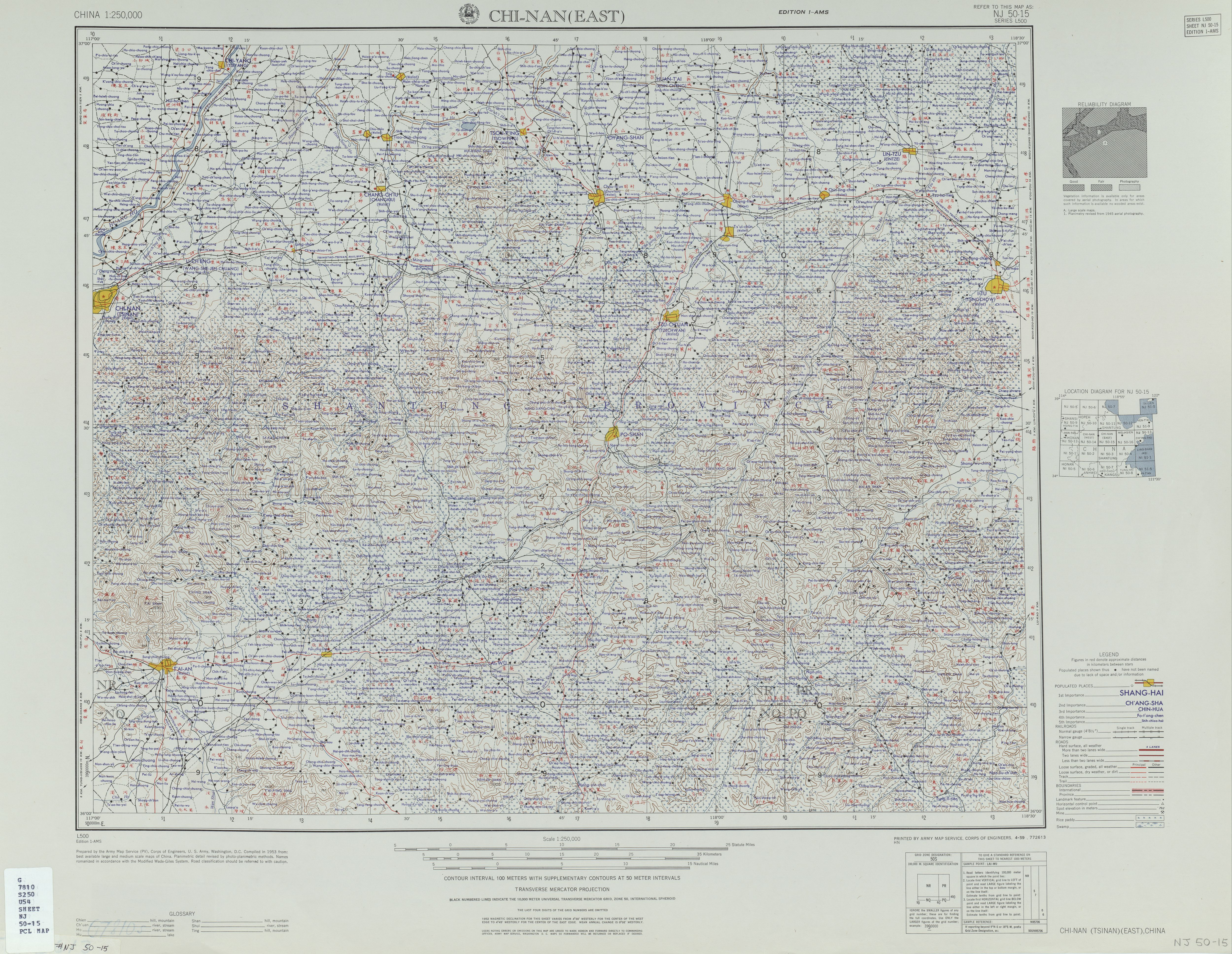 China AMS Topographic Maps